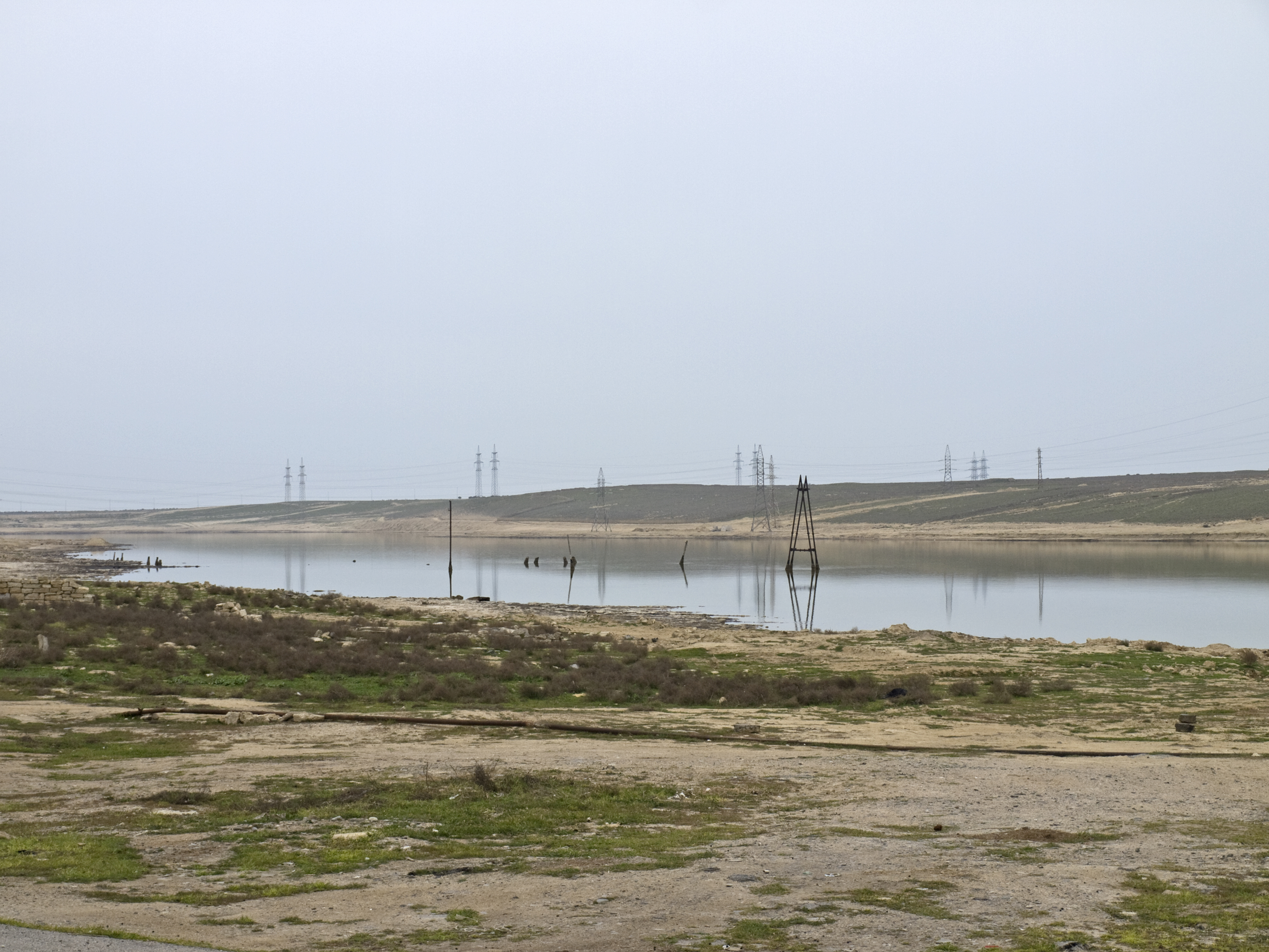 Reservoir in Qala, Baku, Azerbaijan